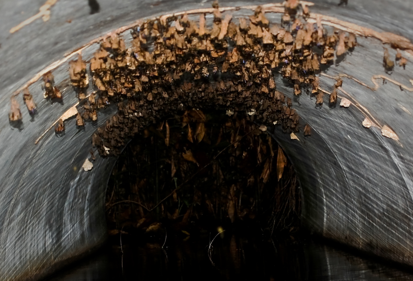 Cluster of Parischnogaster alternata nests (Photo: David Baracchi)